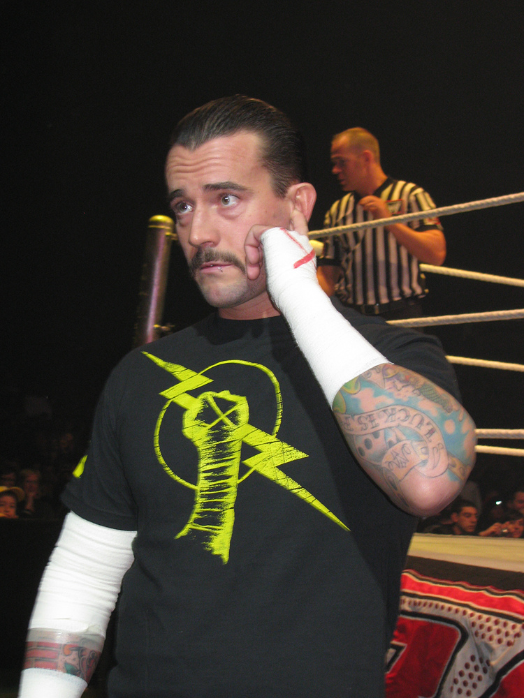 CM Punk @ Adelaide, South Australia 'RAW' house show on the 4th of July '11